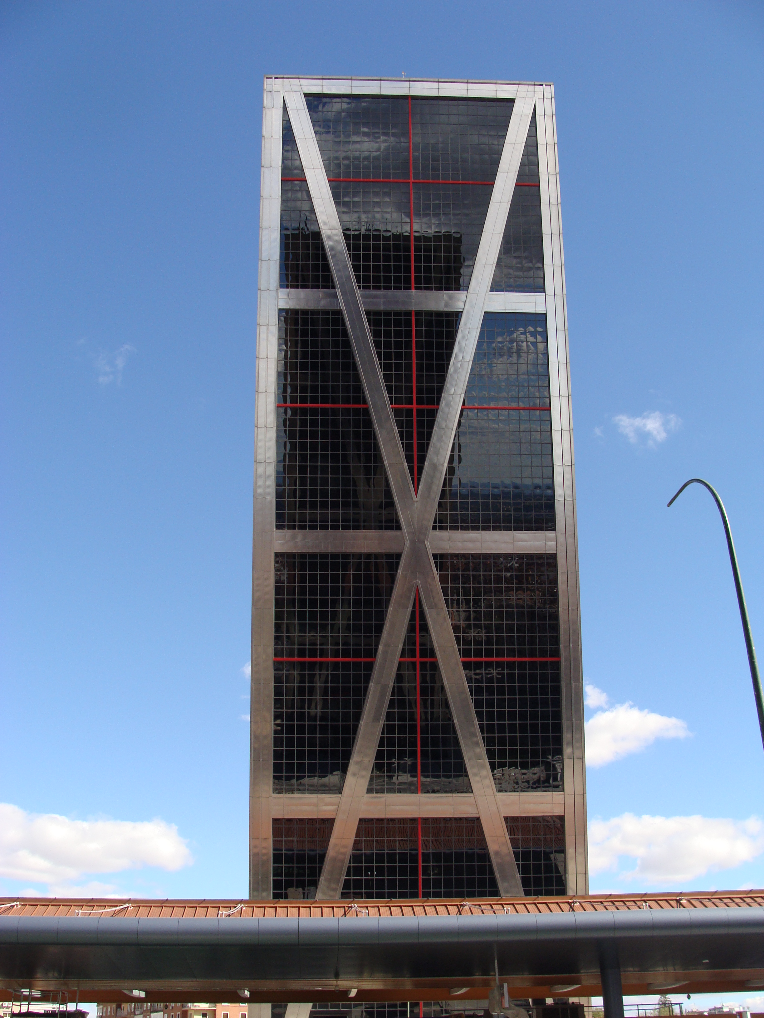 Kio Towers (Puerta de Europa) (Madrid)